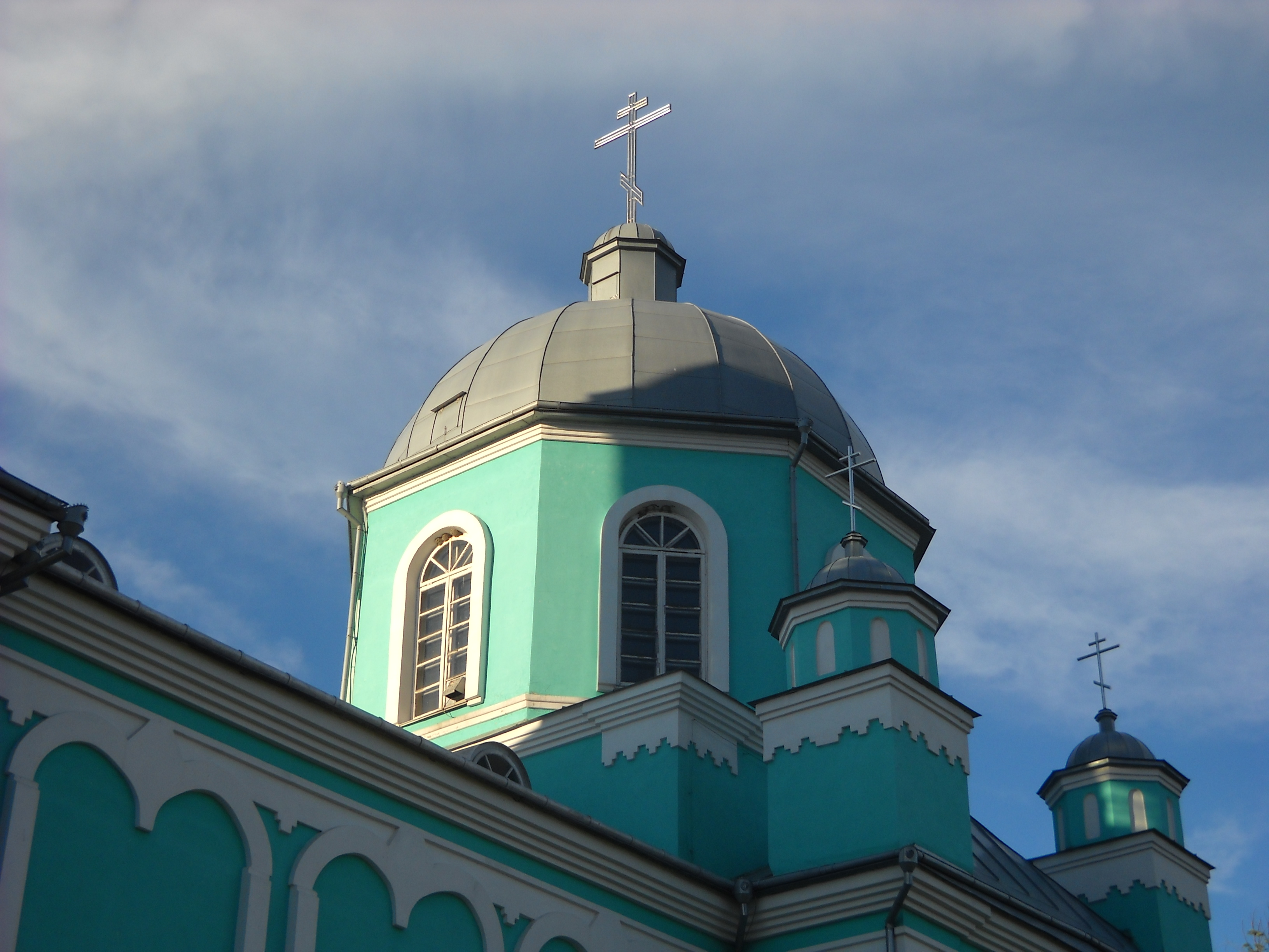 Orthodox Holy Trinity Cathedral in Kovel